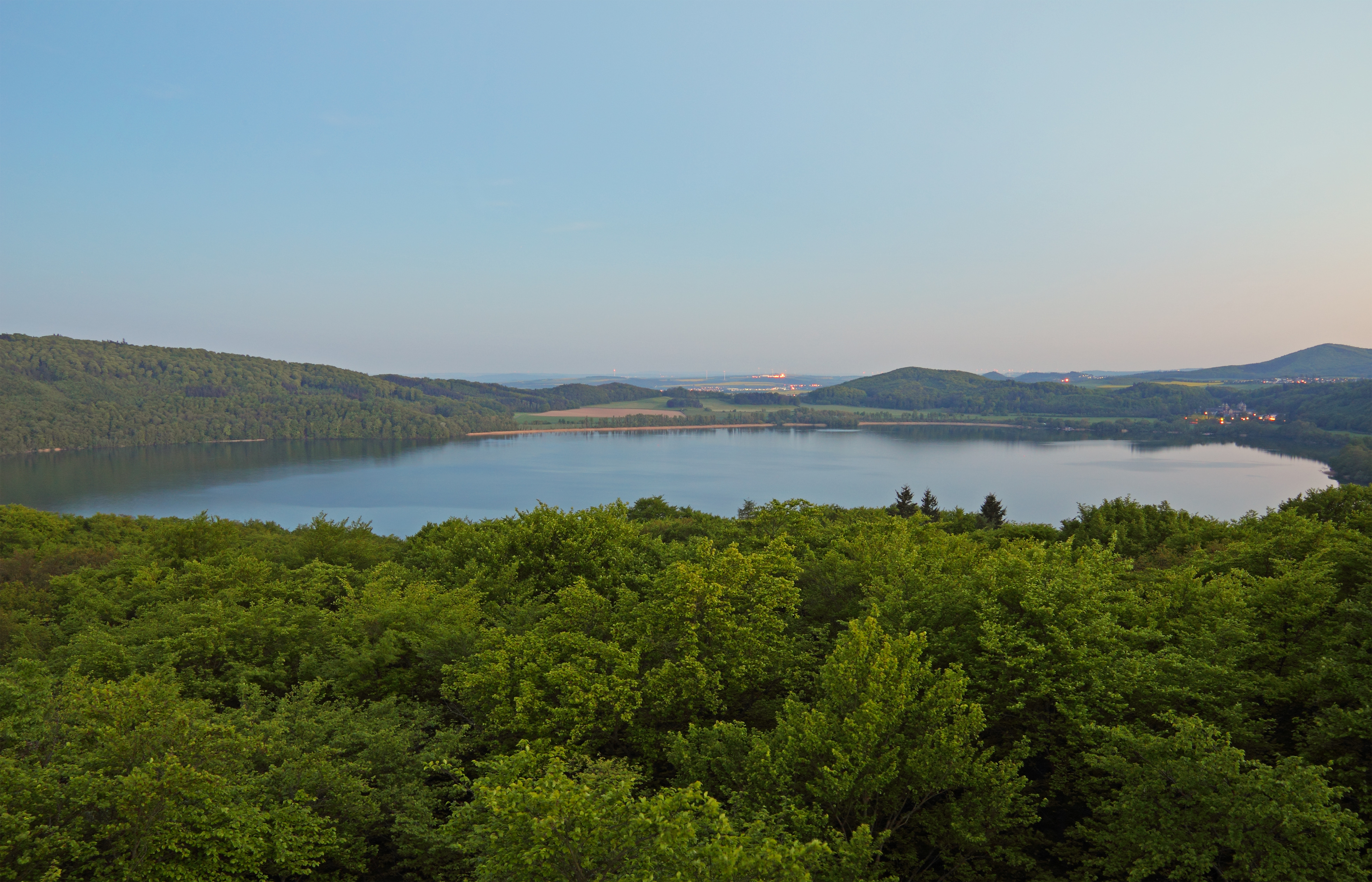 Laacher See in twilight - view from Lydia Tower.